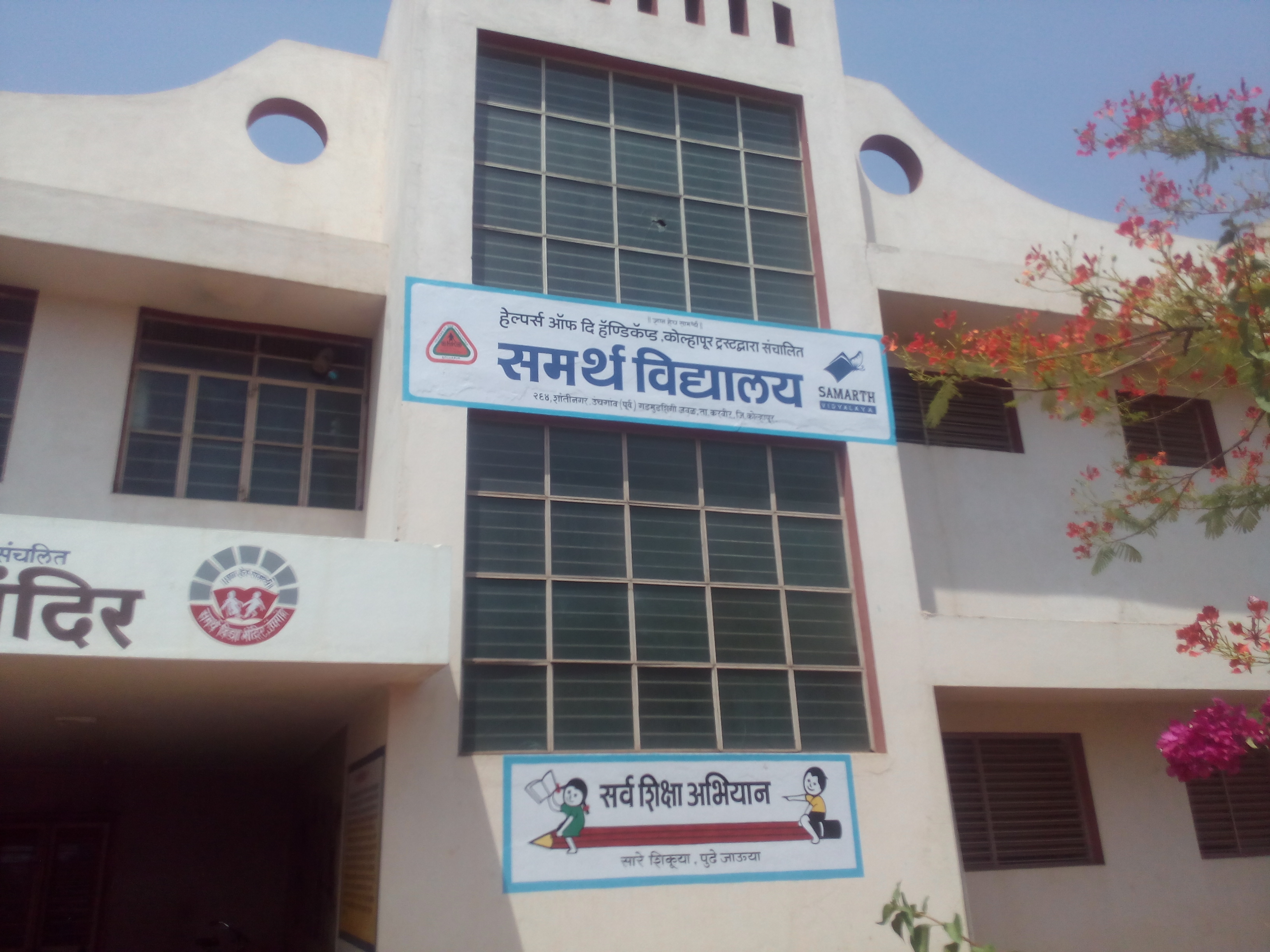 it is an inclusive school,situated at Uchgaon (Kolhapur),run by Helpers of the handicapped.